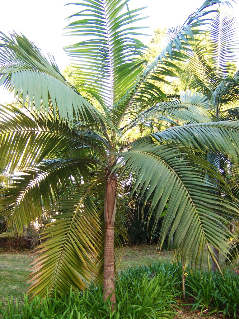 Princess (or Hurricane) palm (Dictyosperma album) - young, Reunion island